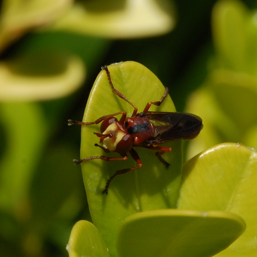 Physocephala burgessi. Made in San Jose, California, USA. Identified by Ken Wolgemuth and Beatriz Moisset.